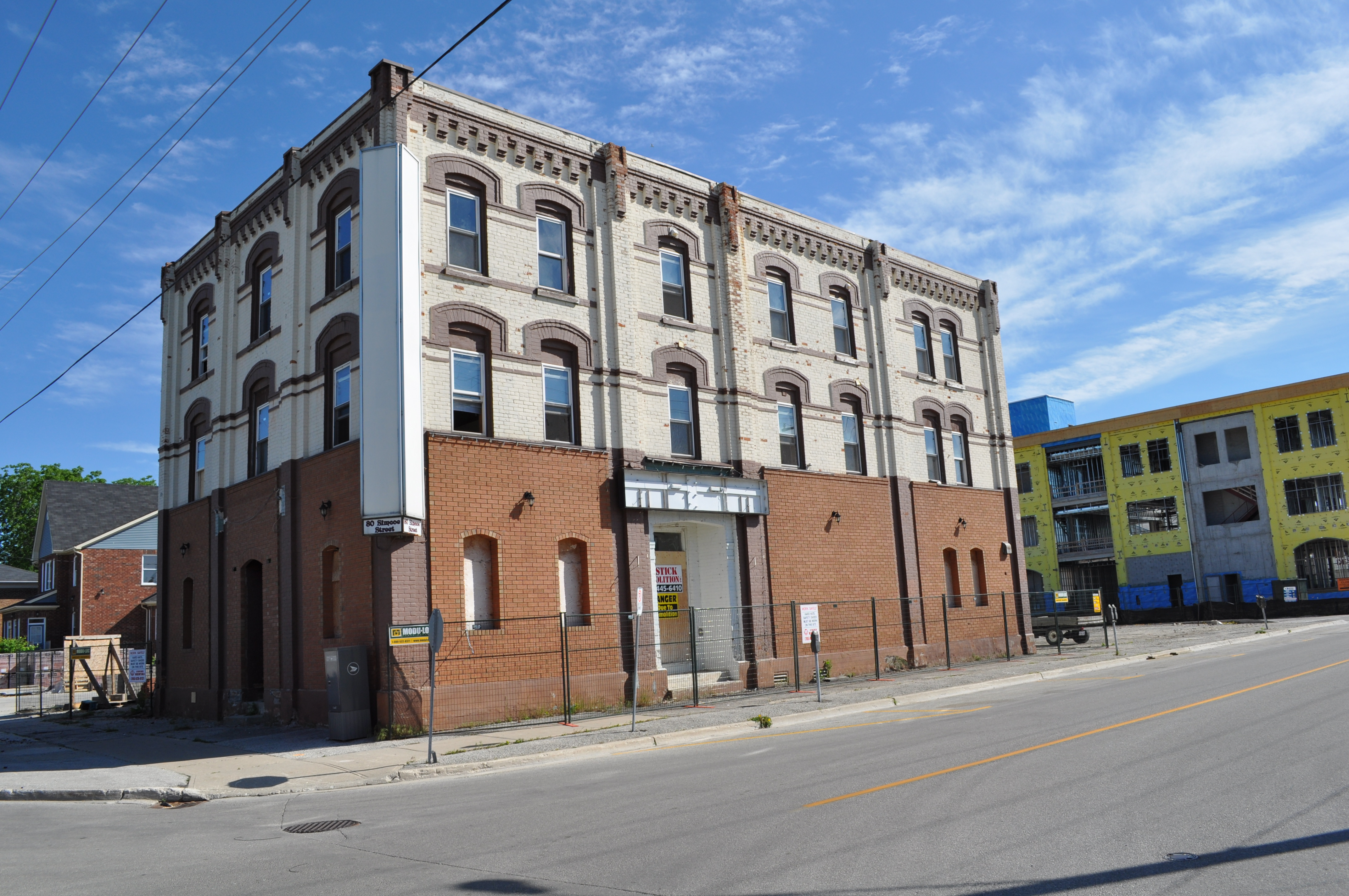 The Tremont Hotel in Collingwood, Ontario, abandoned and slated for demolition. (Note rooftop parapets removed.)